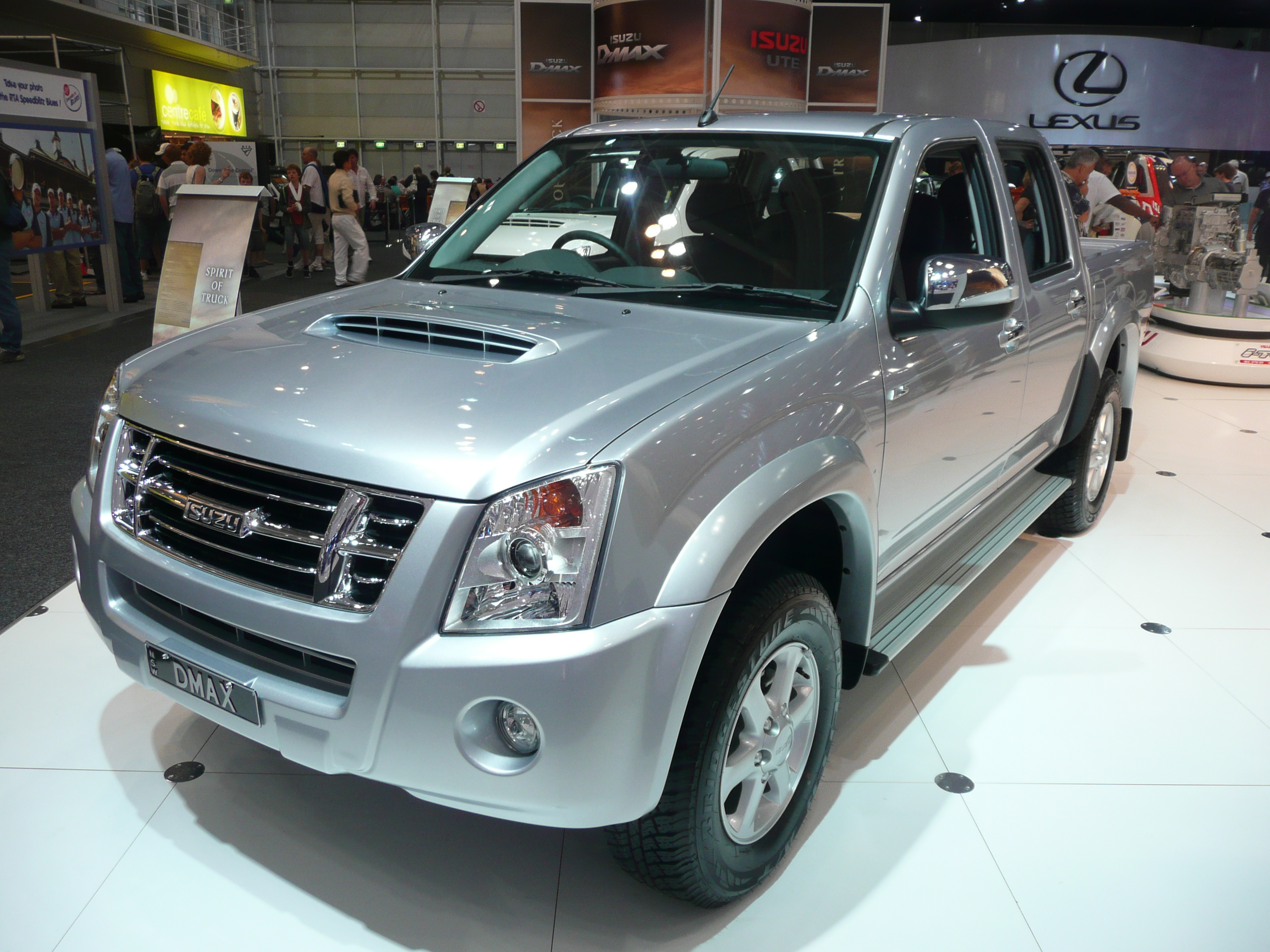 2008 Isuzu D-Max LS-U 4-door utility. Photographed at the 2008 Australian International Motor Show, Sydney, New South Wales, Australia.